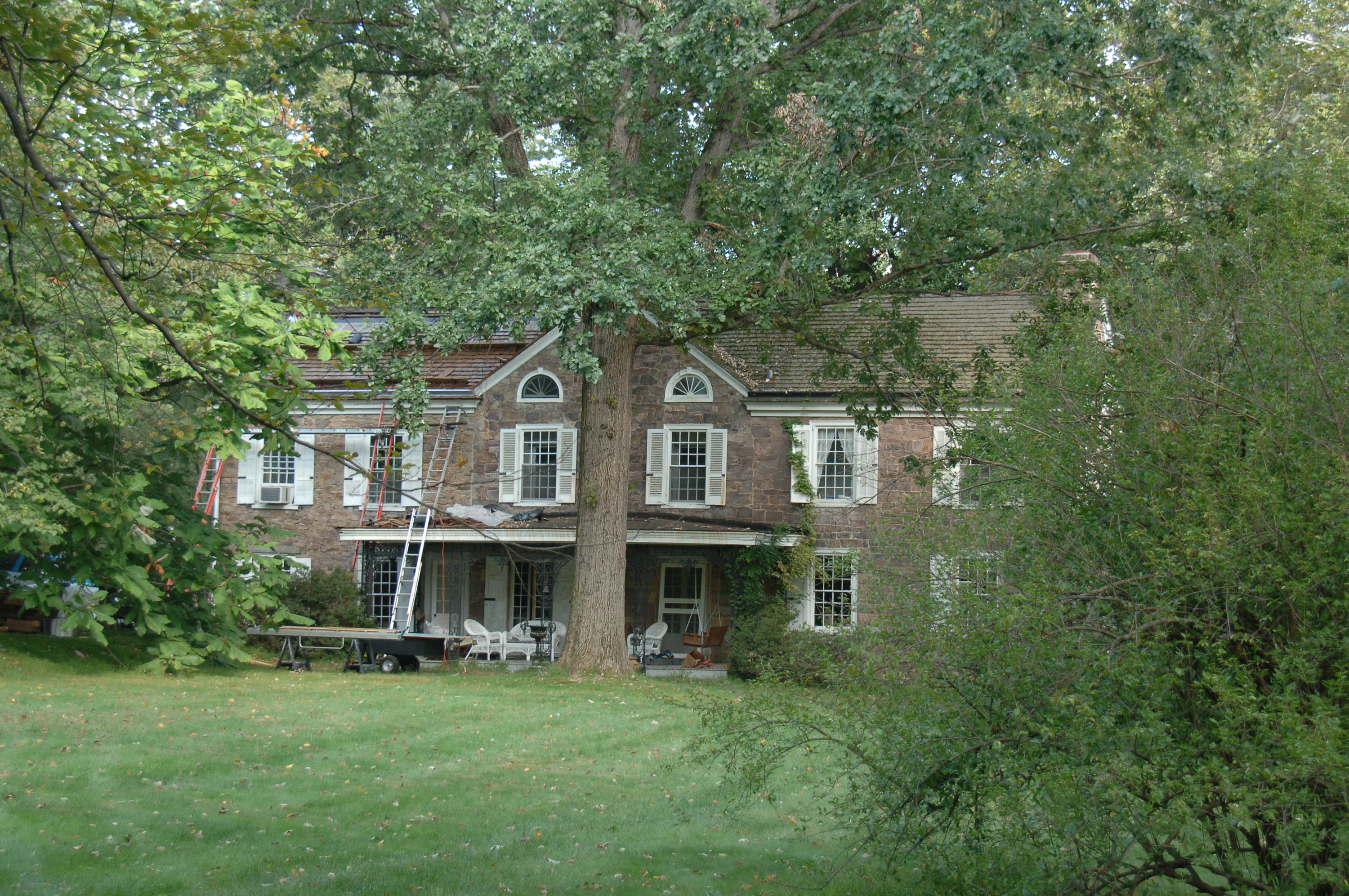 WASHINGTON’S HEAD-QUARTERS FROM OCTOBER 20 THROUGH NOVEMBER 2ND, 1777. ALSO WAS THE SCENE OF MAD ANTHONY WAYNE’S COURT MARTIAL FOR HIS INVOLVEMENT IN THE PAOLI MASSACRE